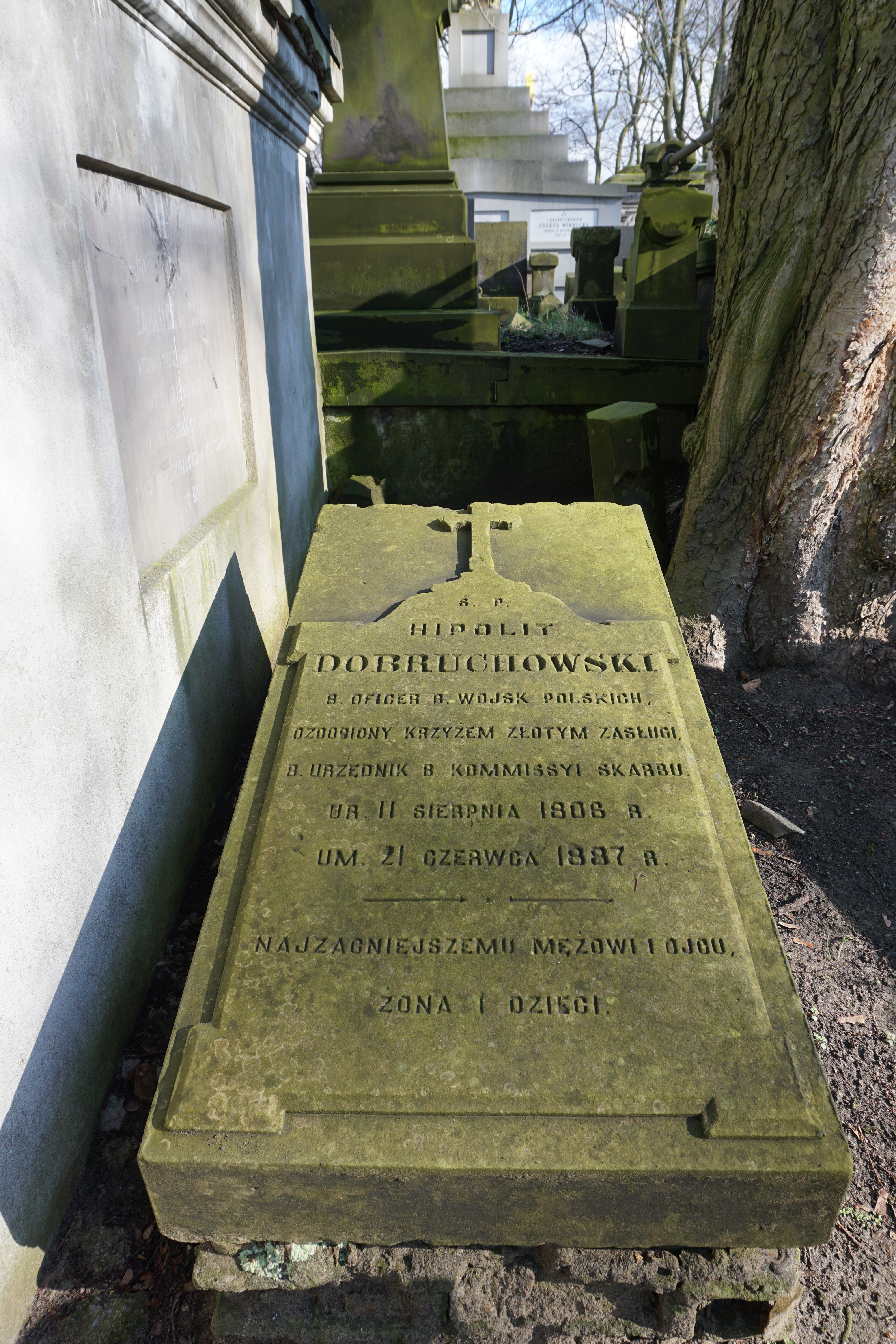 The grave of Hipolit Dobruchowski at the Powązki Cemetery (section 181, row 6, grave 10)